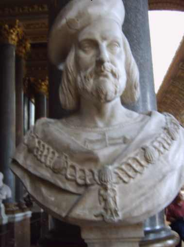 Guillaume de Bonnivet, battles gallery, Versailles castle, France